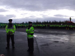 Gardaí standing guard at the site of the proposed Corrib gas refinery in Erris, County Mayo to counter Shell to Sea protesters